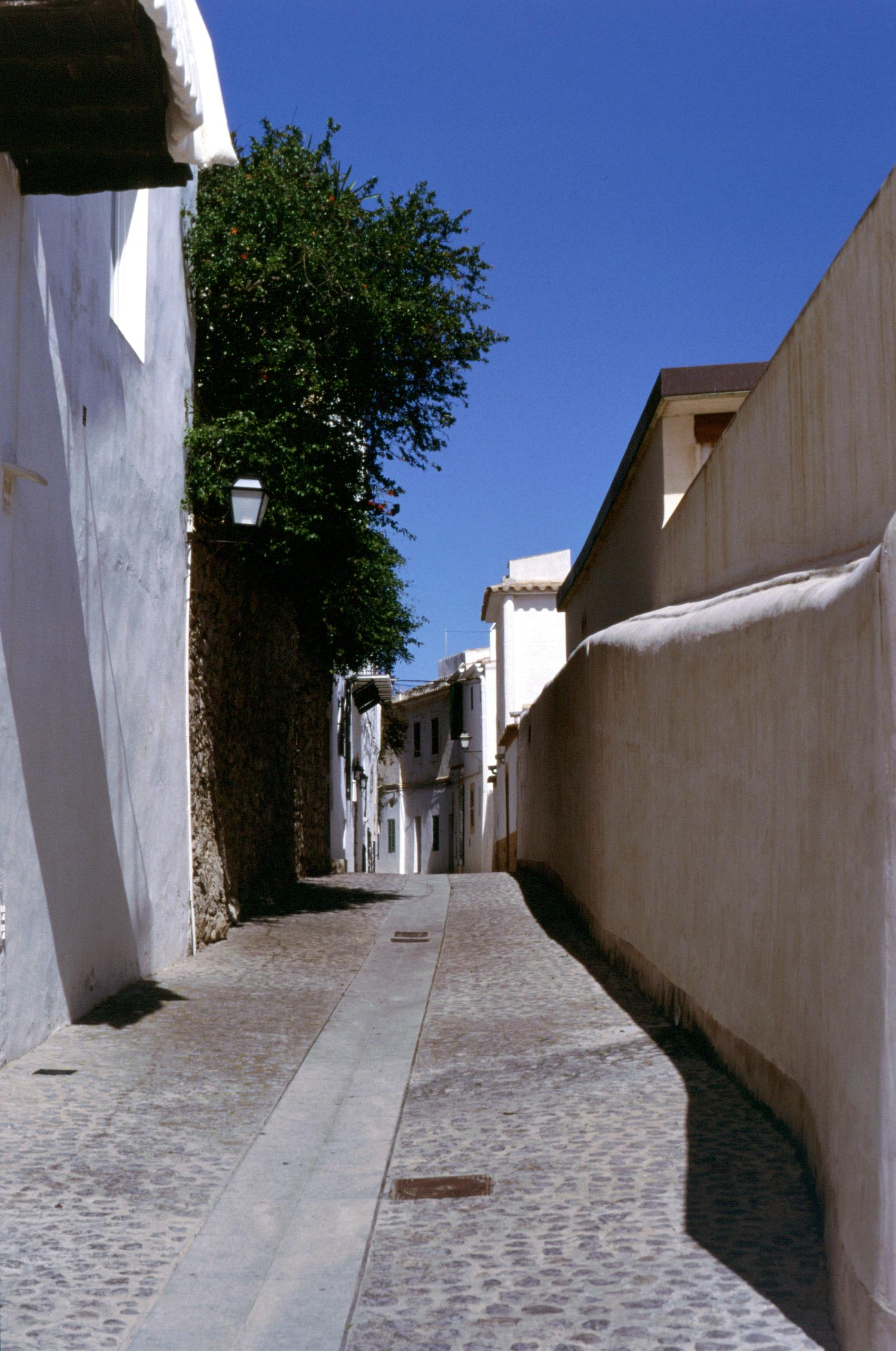 Lane in Eivissa's Old Town, Dalt Vila, Eivissa (Ibiza), Spain